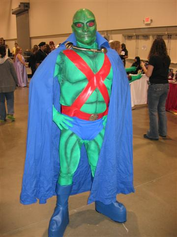 Martian Manhunter cosplay. .